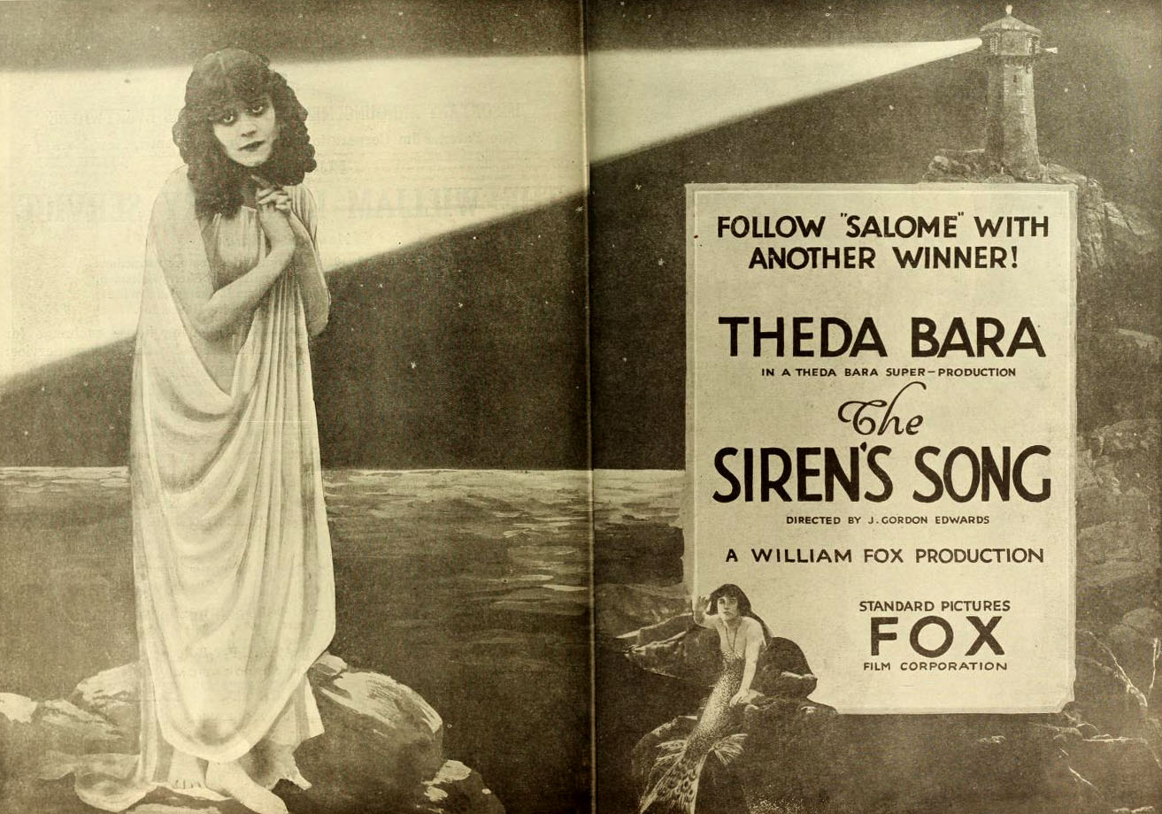 Advertisement in Moving Picture World, May 1919 for the American film The Siren's Song (1919) with Theda Bara.